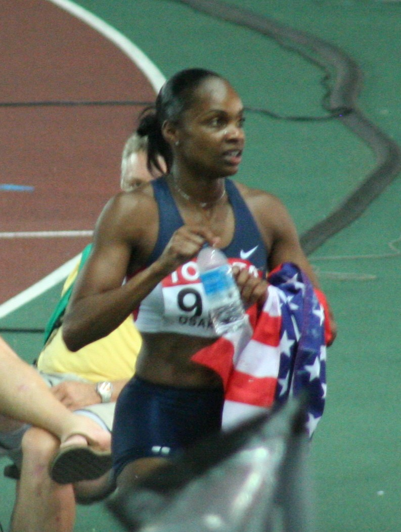 World Athletics Championships 2007 in Osaka - Michelle Perry after winning the women's 100 metres hurdles